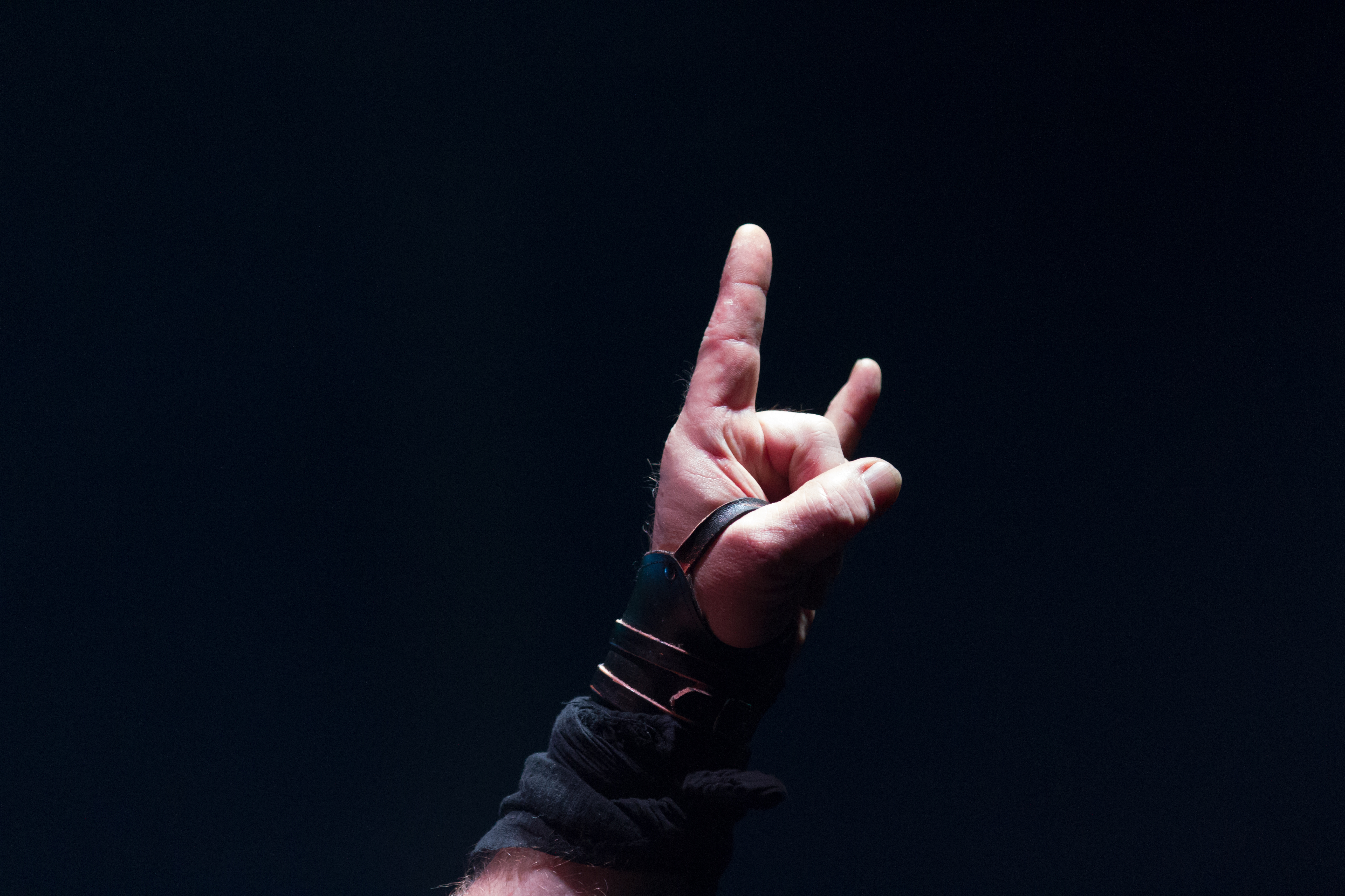 Series: performance of Subway to Sally at the Eisheilige Nacht 2014 in Stuttgart, GermanyImage: Eric Fish’s “metalhand”